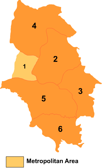 Map of Haidong in Qinghai province